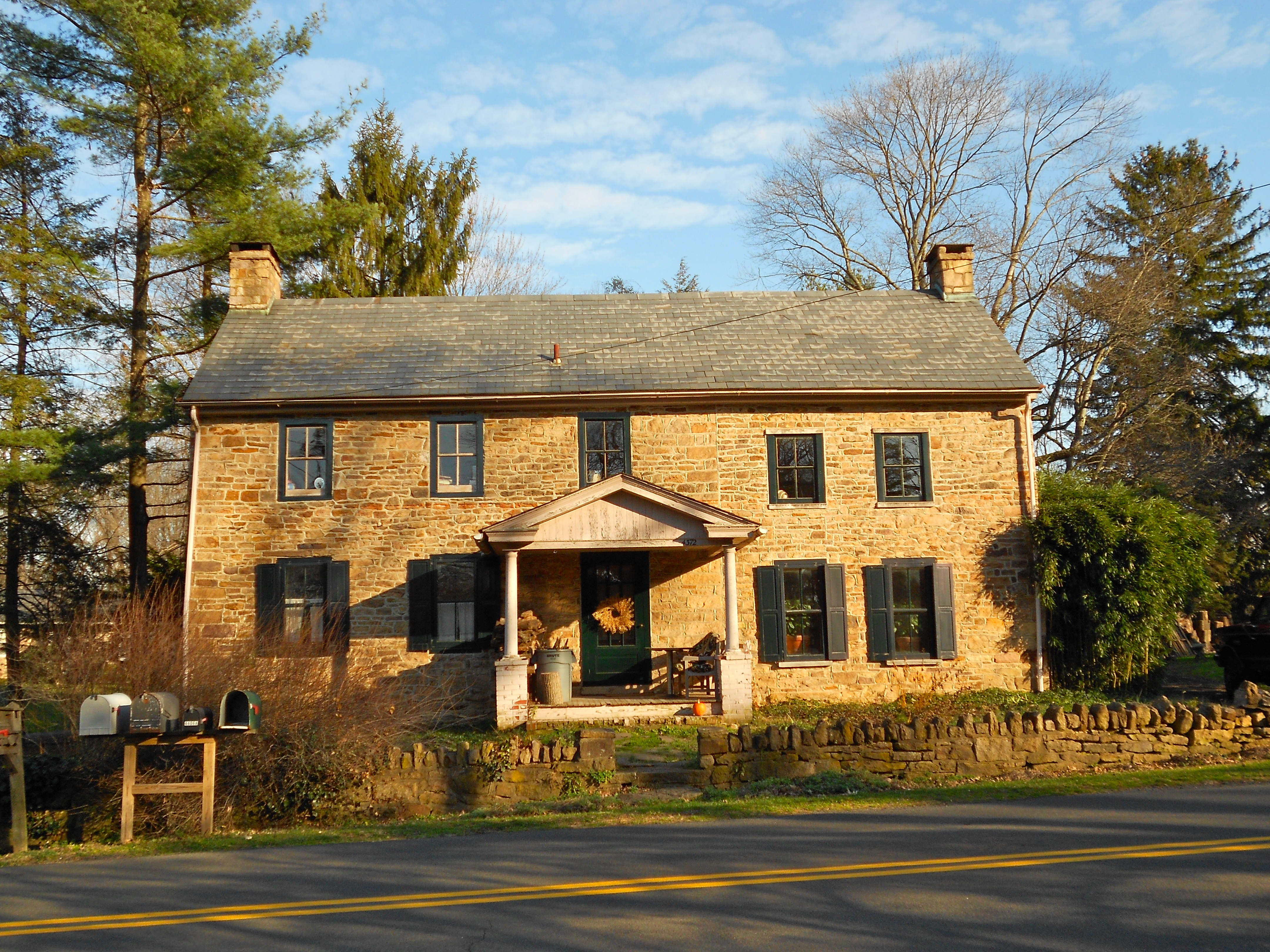 House in Dyerstown Historic District on the NRHP since January 15, 1987. The district runs along Old Easton Road near the junction of Stony Lane, just north of Doylestown in Plumstead Township, Bucks County, Pennsylvania